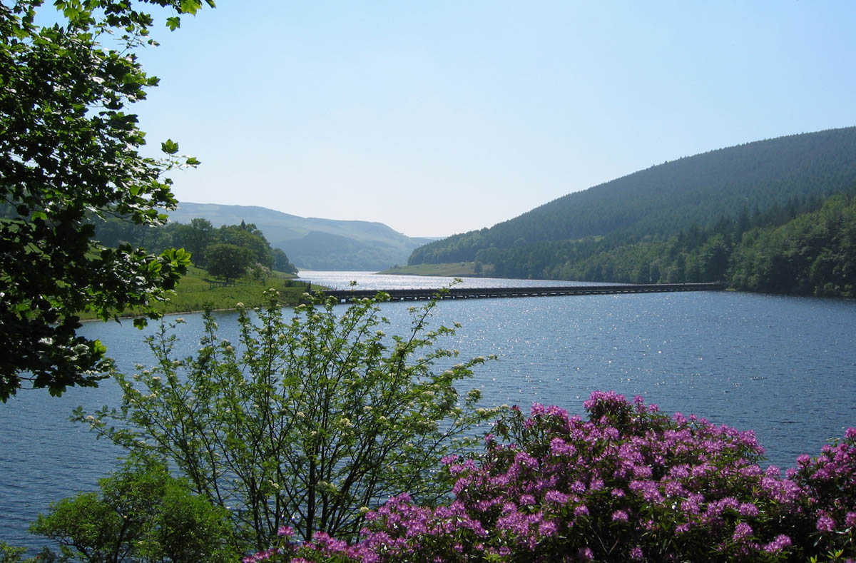 Northern branch of Ladybower Reservoir, near visitors' centre.